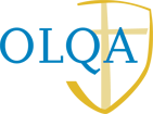 OLQA School Logo